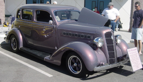 Customized 1935 Plymouth PJ Touring Sedan Owner Builder: Nilo Bertoloni Engine: 350 Chevrolet Transmission: 700R4 Front Suspension: Mustang II Rear End: Nine Inch Ford Is this still considered a classic car when it was heavily modified with foreign parts. Hybrid seems to be more appropriate.